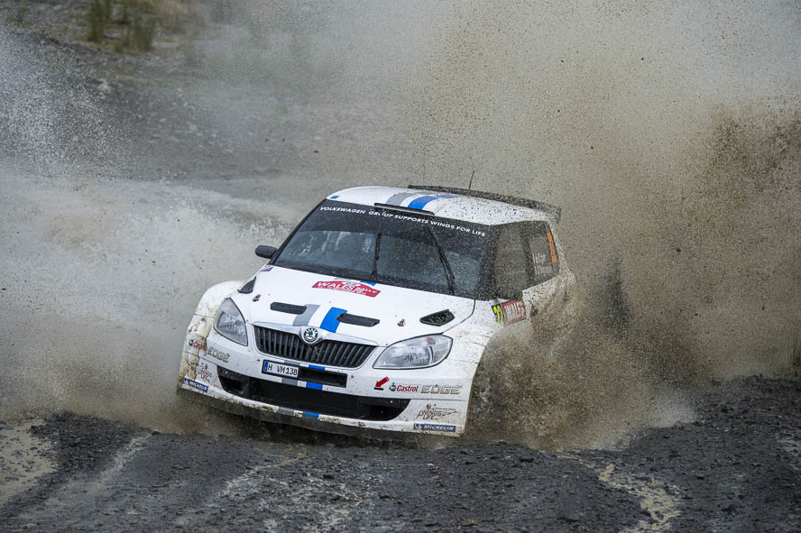 Wales Rally Great Britain 2012 Hafren Sweet Lamb 2,Julien Ingrassia,Motorsport,Rally,Rallye,SS5,Sebastien Ogier,Skoda Fabia S2000,Volkswagen Motorsport,WP5,WRC,Wales Rally GB